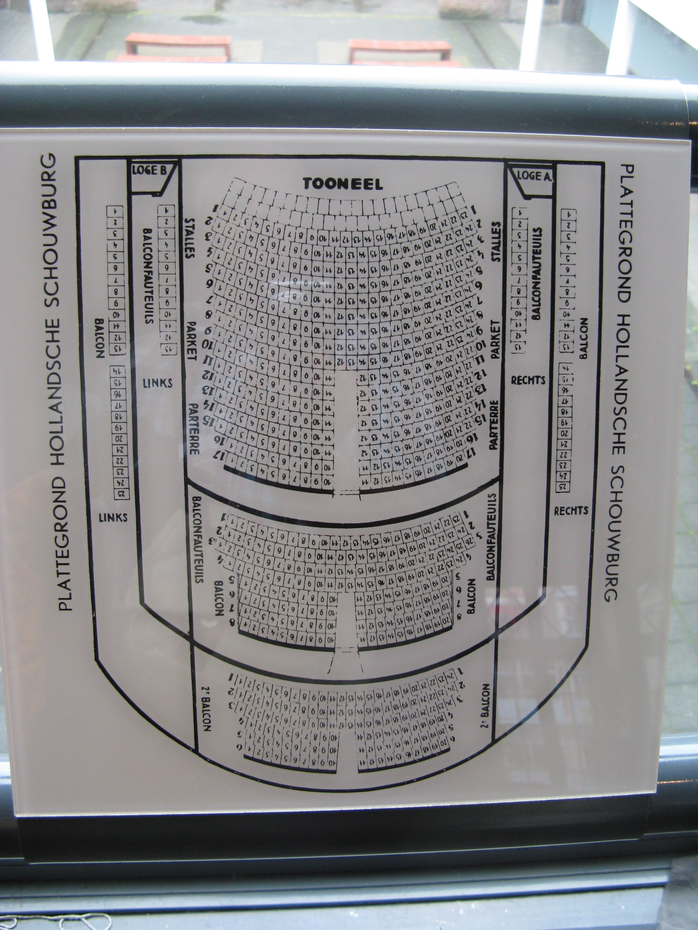 Hollandsche schouwburg Dutch Theatre - Seating plan.